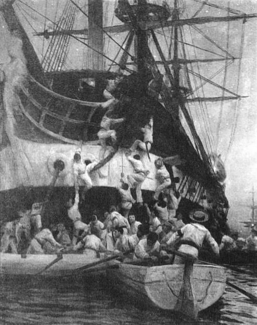 Capture of the frigate Esmeralda by Chileans in Callao 1820 from "Cochrane in the Pacific: fortune and freedom in Spanish America", Brian Vale, page 115